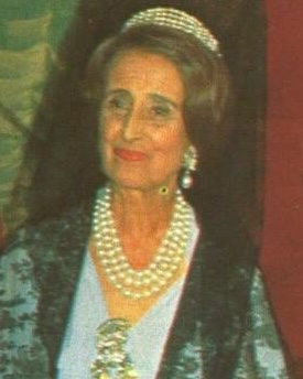 Photograph of Carmen Polo, Lady of Meiras, with mantilla, in the day of her granduaghter's wedding (8 March 1972) to Prince Alfonso of Bourbon, later Duke of Cadiz